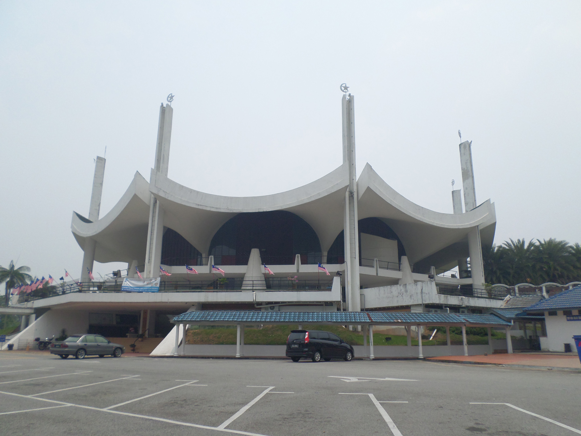 Negeri Sembilan State Mosque, Seremban, Negeri Sembilan, Malaysia